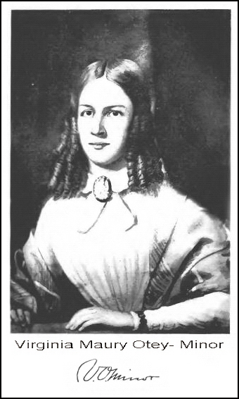 This image comes from the Southern Literary Messenger. It is an image of the wife of Benjamin Blake Minor and the daughter of Rt. Rev. James Hervey Otey